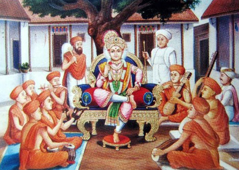 Swaminarayan (or Shreeji Maharaj) with santos and haribhaktos. Picture of original painting taken at Shri Swaminarayan Mandir, Ahmedabad